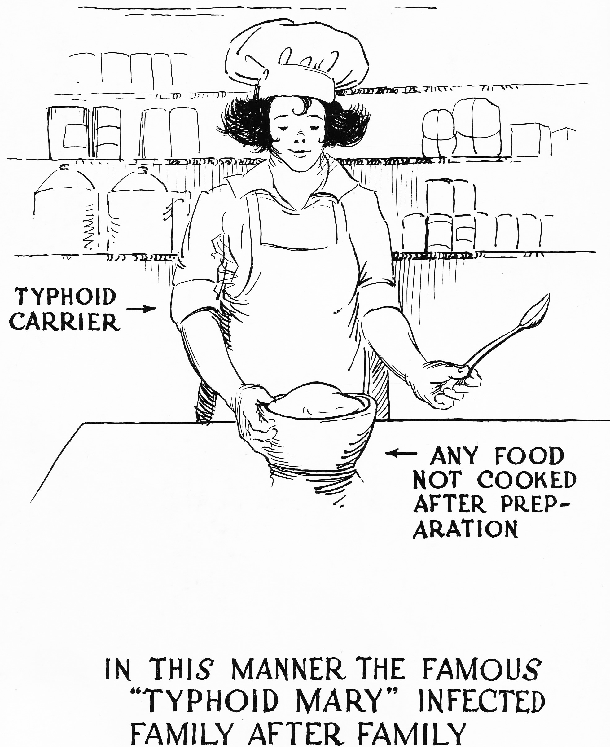 Typhoid carrier. Food pollution. "In this manner the famous 'Typhoid Mary' infected family after family."